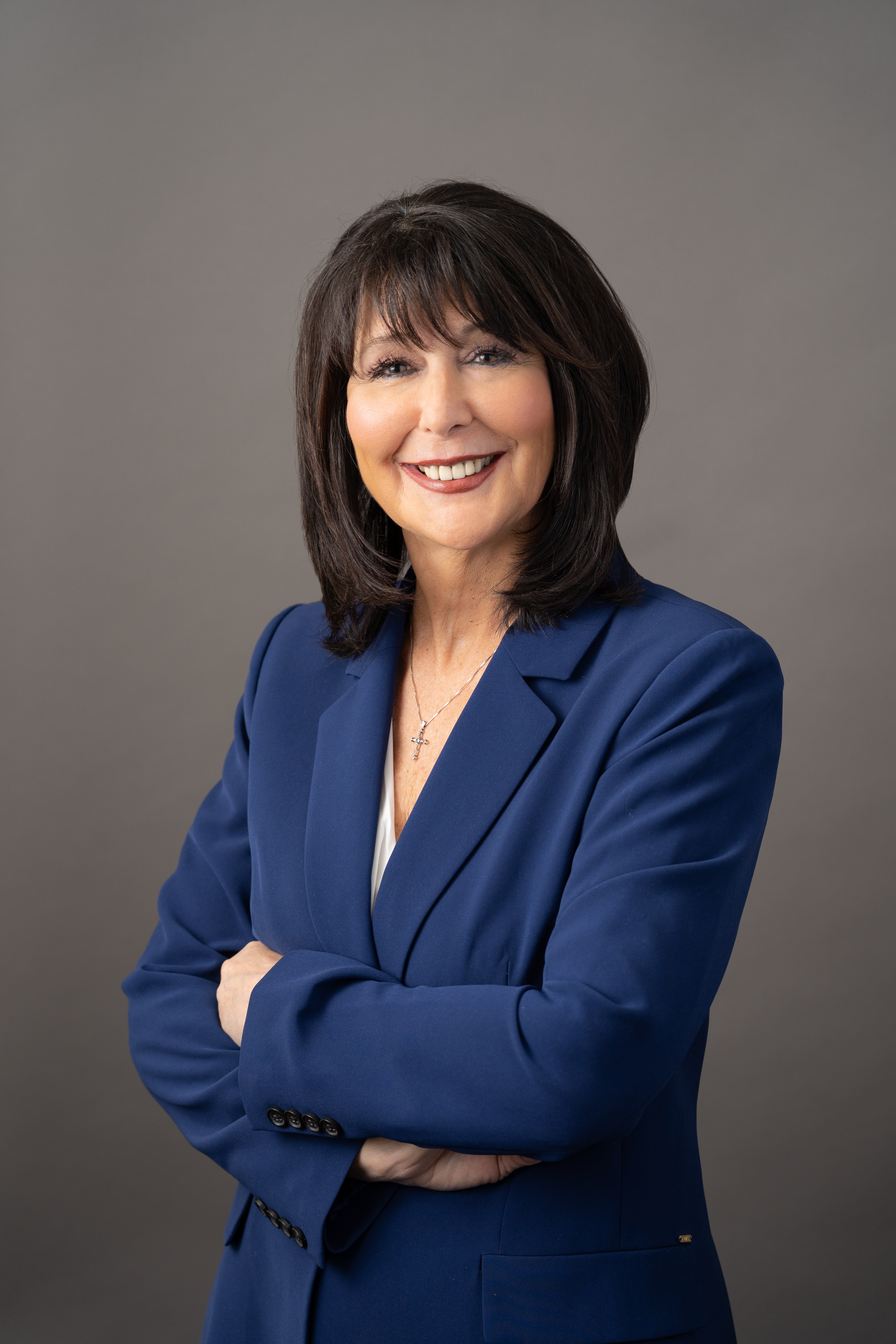 Portrait of Philomena V. Mantella in 2019